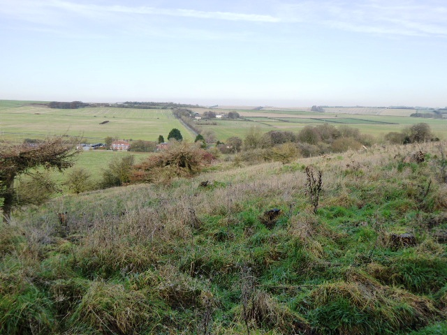 View towards Fognam Chalk Quarry, which is a Site of Special Scientific Interest west of Lambourn in Berkshire.